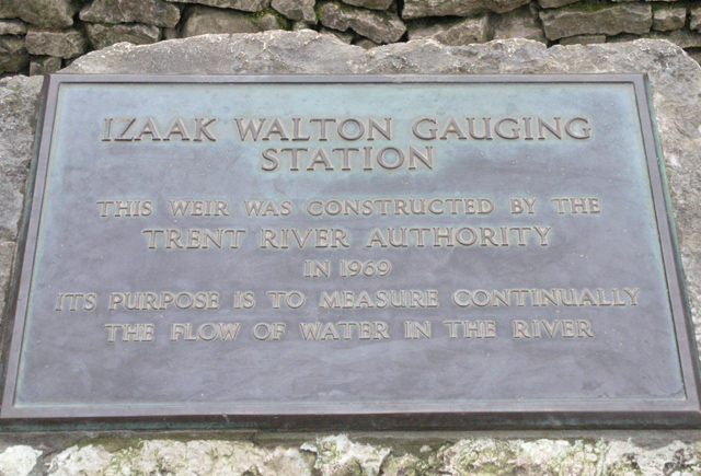 Gauging Station plaque, Dovedale It is perhaps a measure of the popularity of this spot that someone has seen fit to provide such an august plaque for such a common thing.